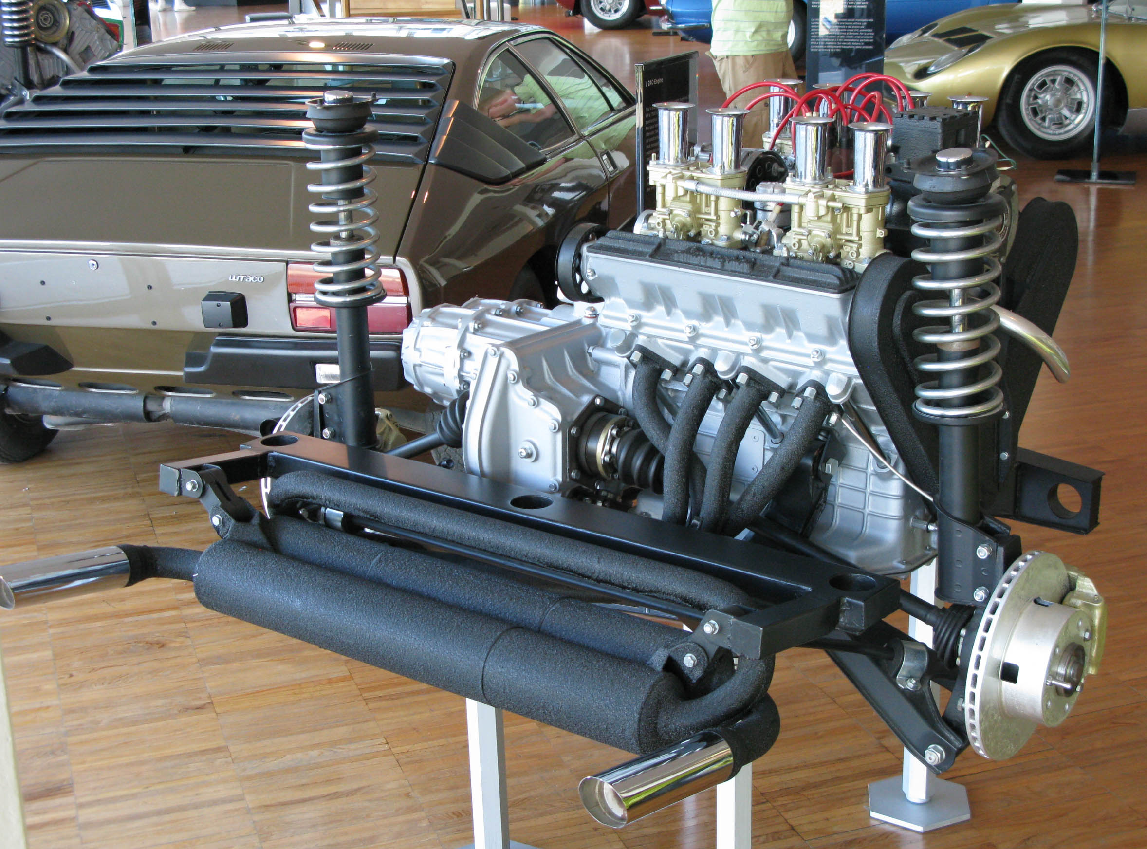 Lamborghini Urraco SOHC engine